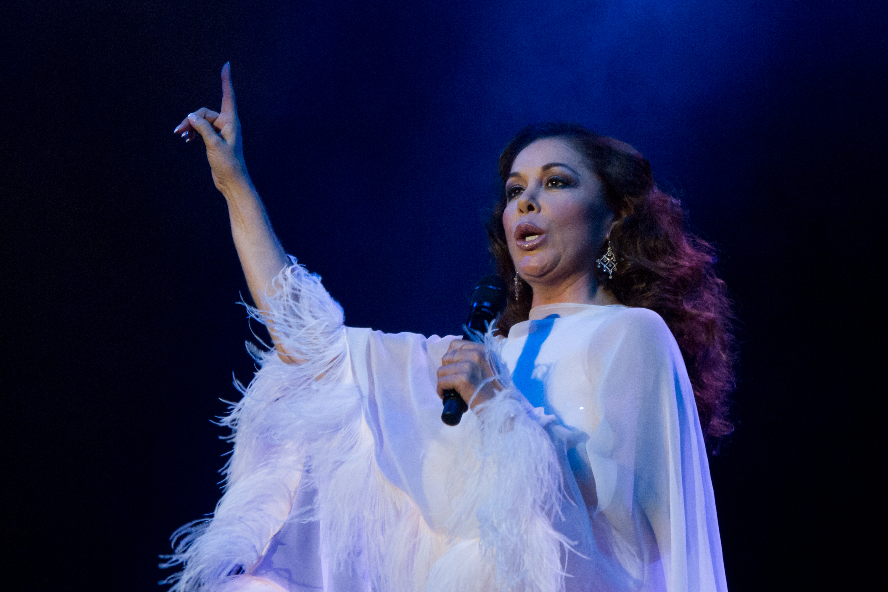 Isabel Pantoja live in Madrid in 2012.